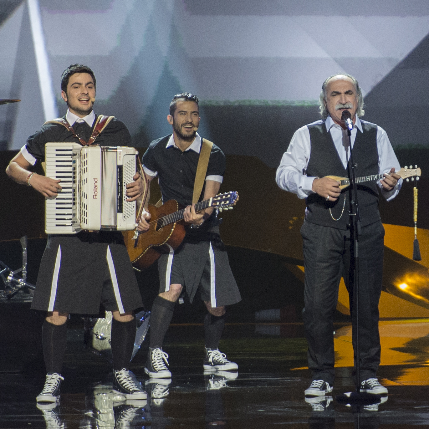 Koza Mostra and Agathonas Iakovidis representing Greece with the song "Alcohol Is Free" during the second dress rehearsal of the second semi final of the Eurovision Song Contest 2013 Malmö. (Help translate this text)